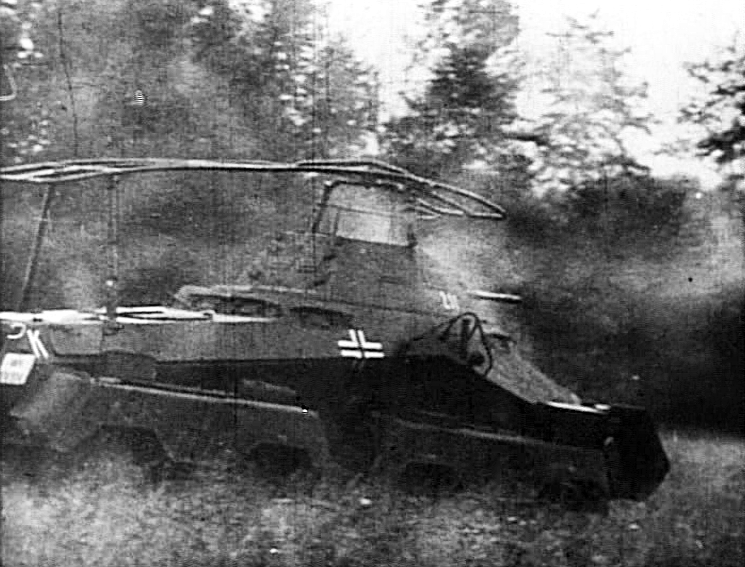 German SdKfz232 (8 rad) in the Ardennes forest (Battle of France) in May 1940. Screenshot taken from U.S. War Department made "Divide & Conquer" (directed by Frank Capra). Public domain.